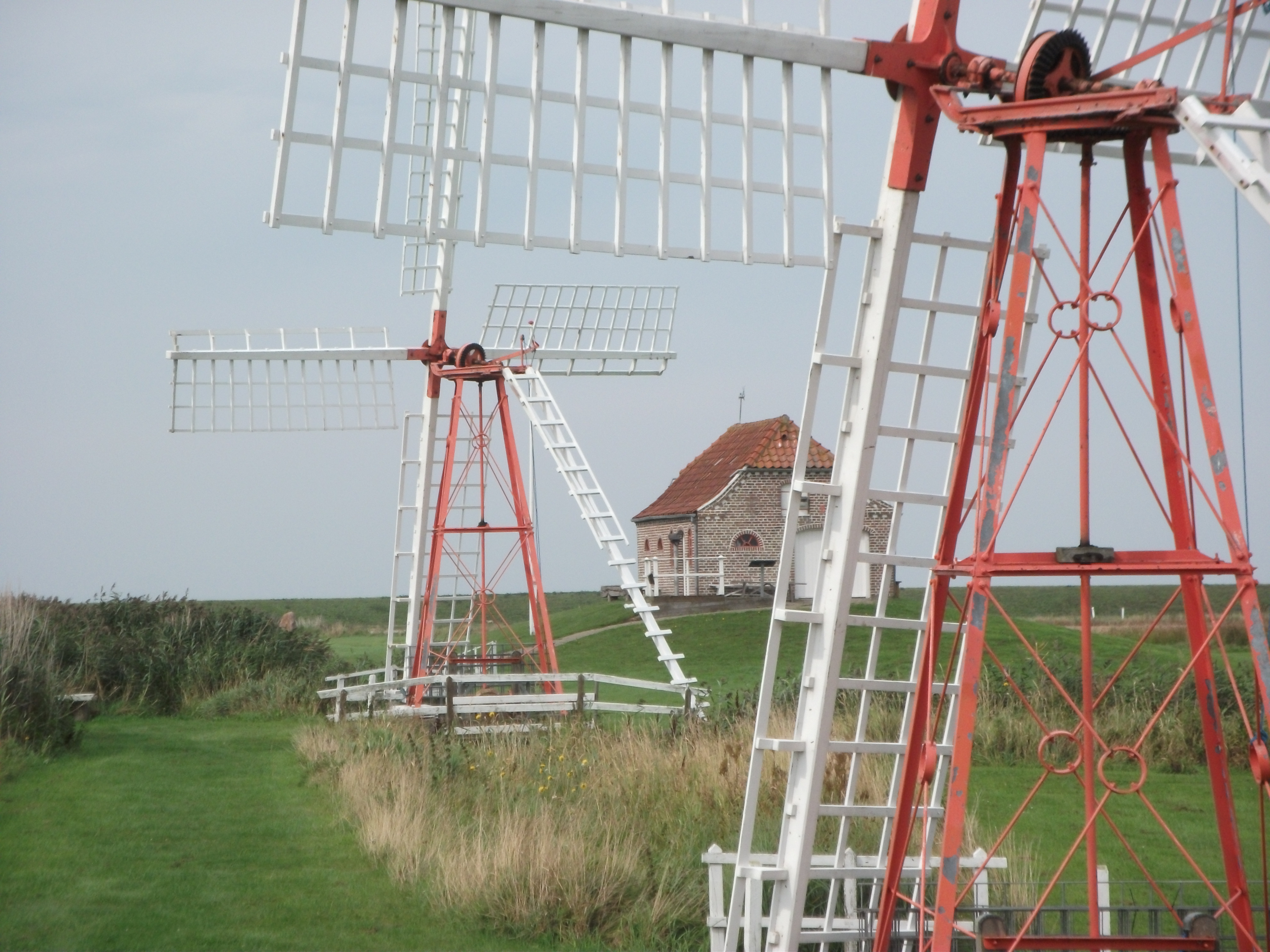 Ballum Pump Mills